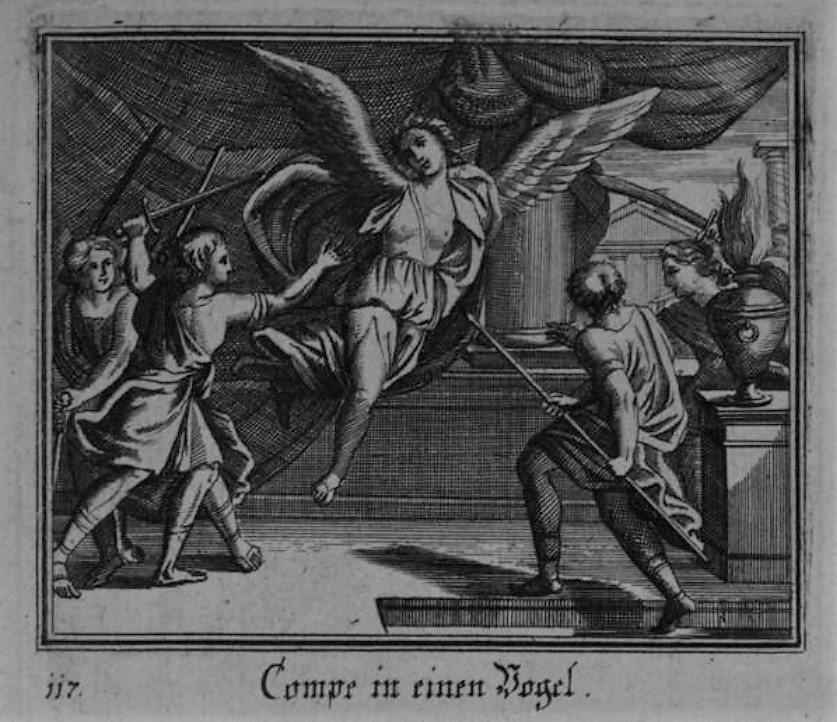 Engraving of Combe from book Die Verwandlungen des Ovidii in Zweyhundert und sechs und zwanzig Kupffern. Based on engraviing from Métamorphoses en rondeaux, 1676.